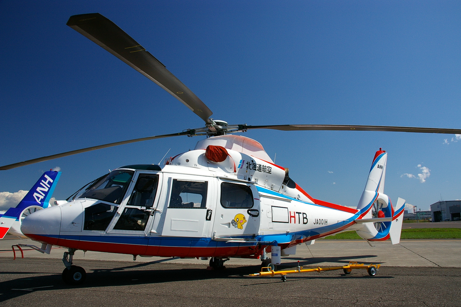 Eurocopter AS365N2, HTB, Hokkaido Aviation Co.